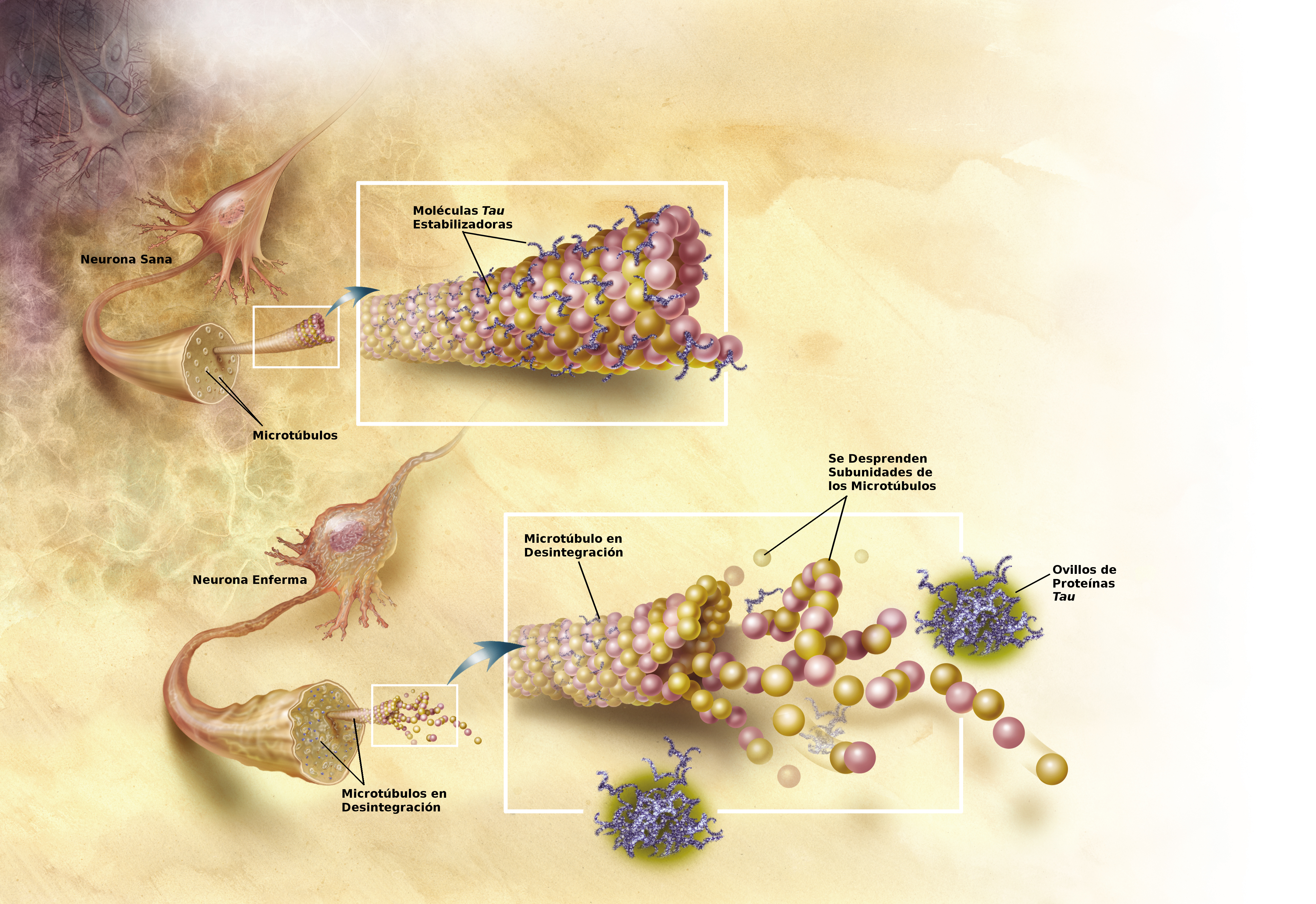 Diagram of how microtubules desintegrate with Alzheimer's disease